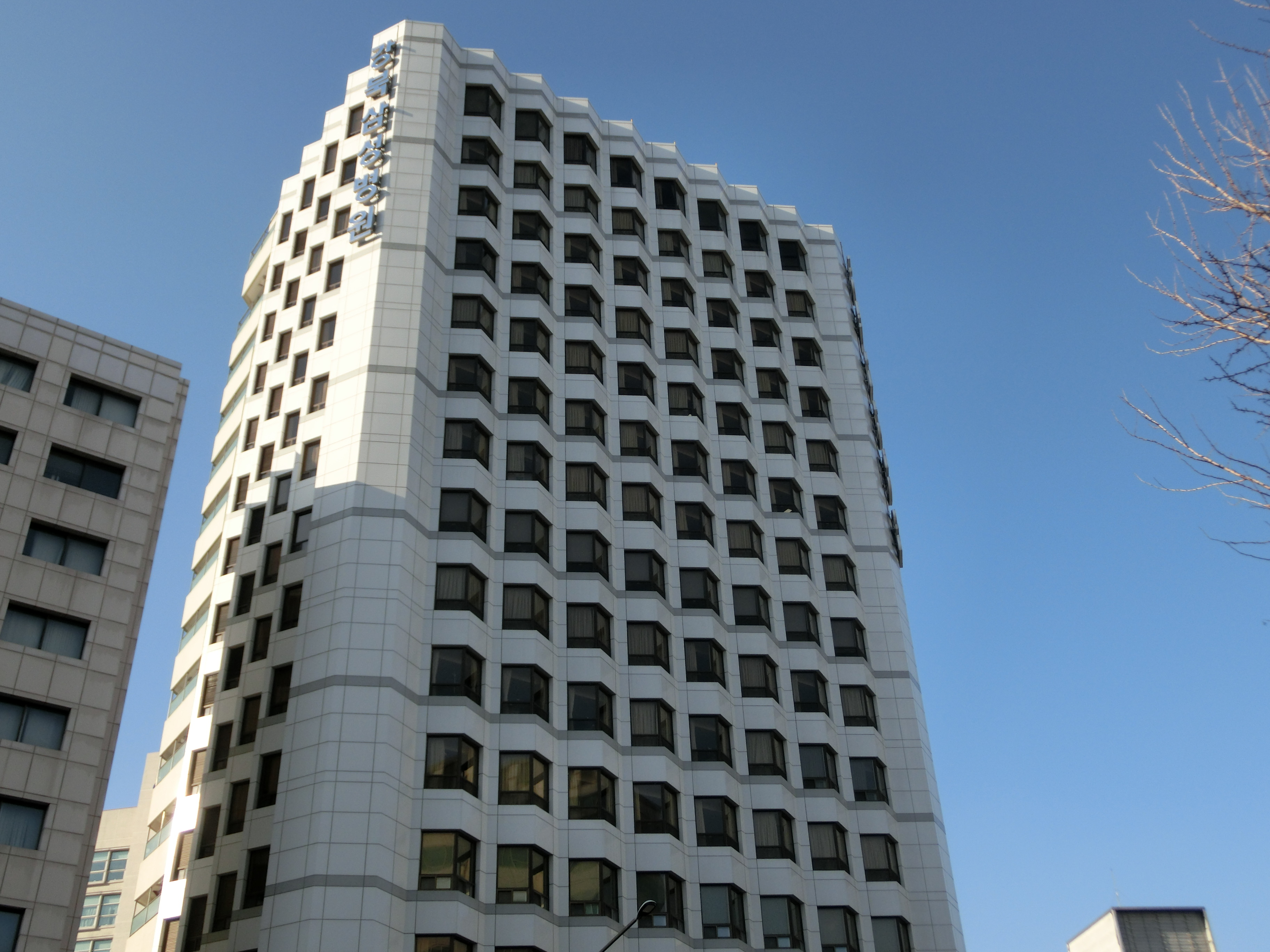 Kangbuk Samsung Hospital